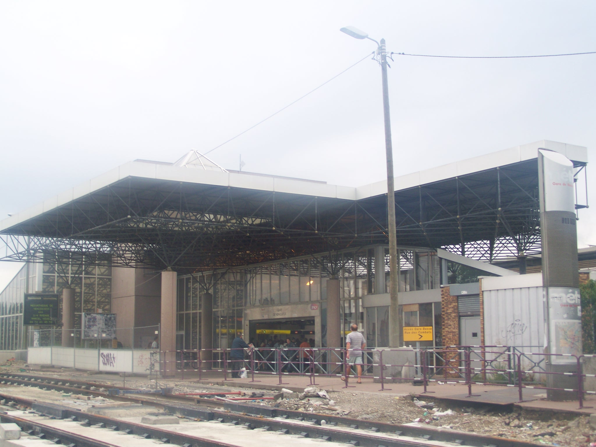 Vénissieux station, in the suburbs of Lyon, in Rhône, France.